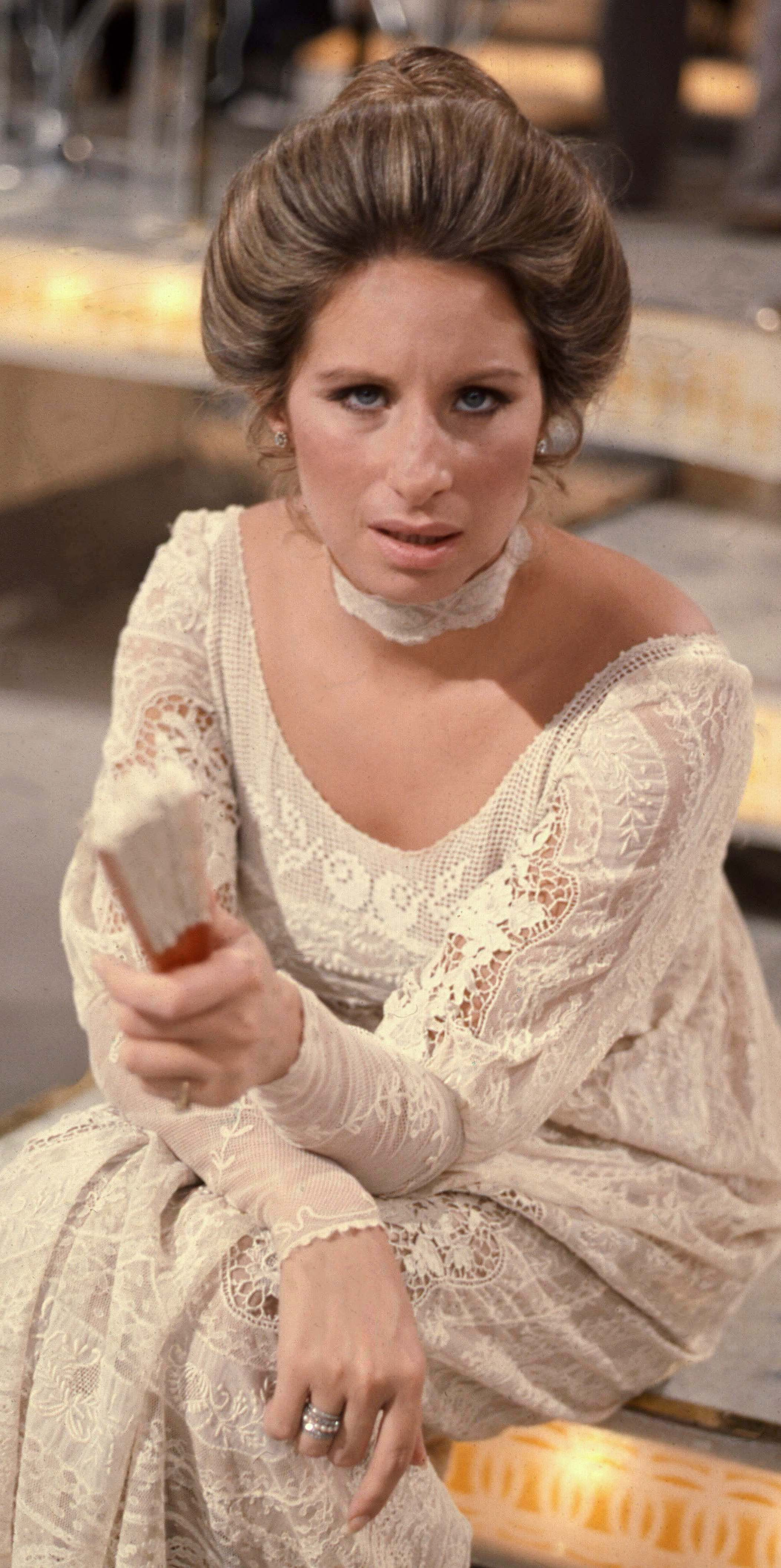 Barbra Streisand